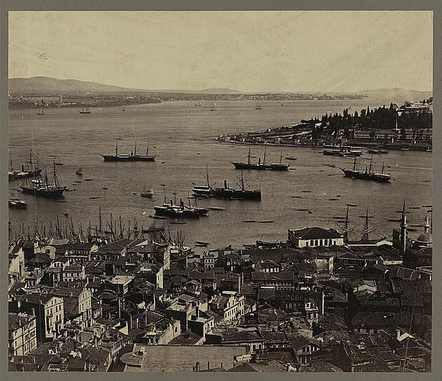 Aerial view of the Golden Horn looking towards Topkapı Sarayı, Istanbul 1876